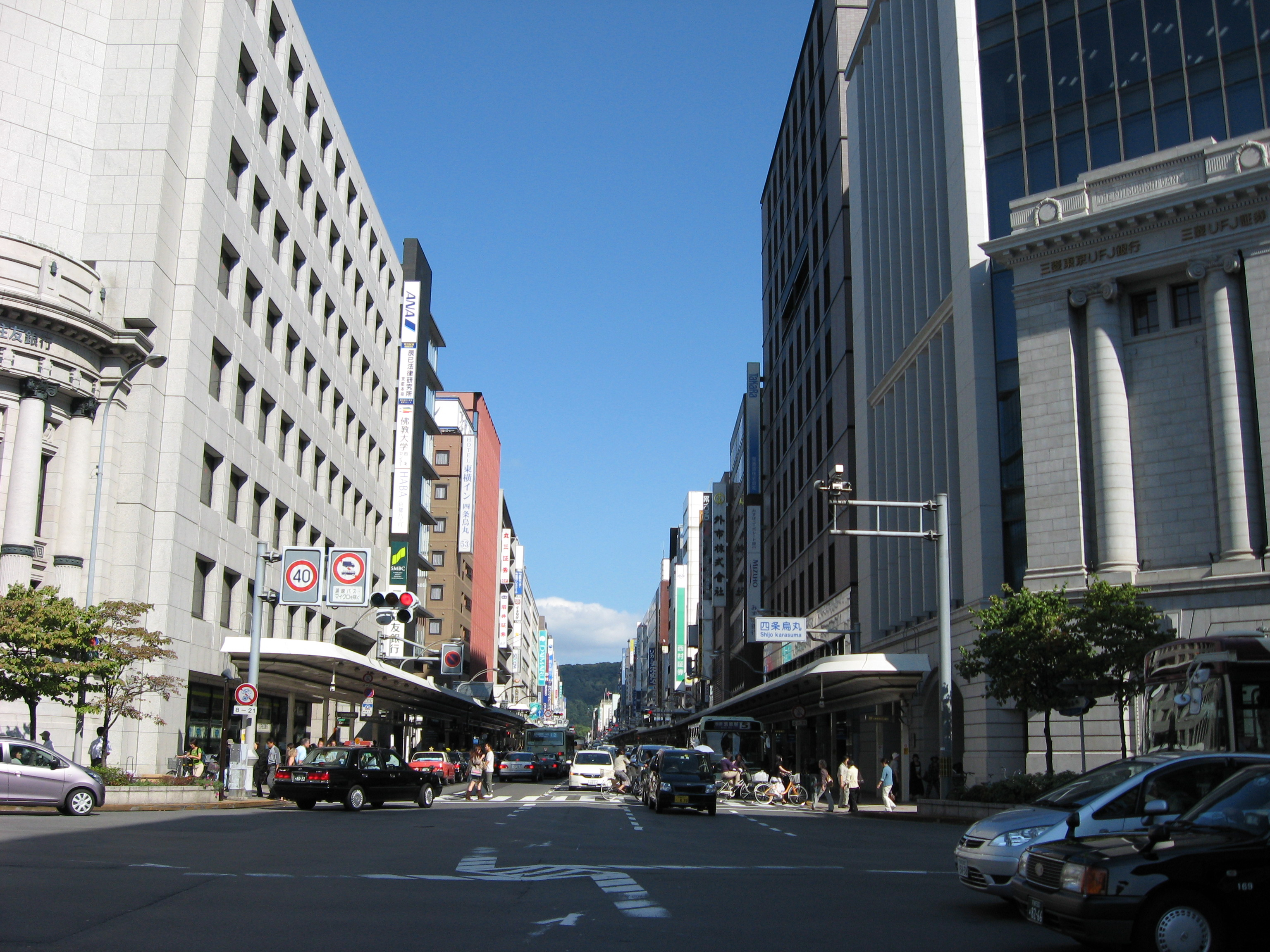 Shijo Karasuma East Side, by Shimogyo, Kyoto, Japan.